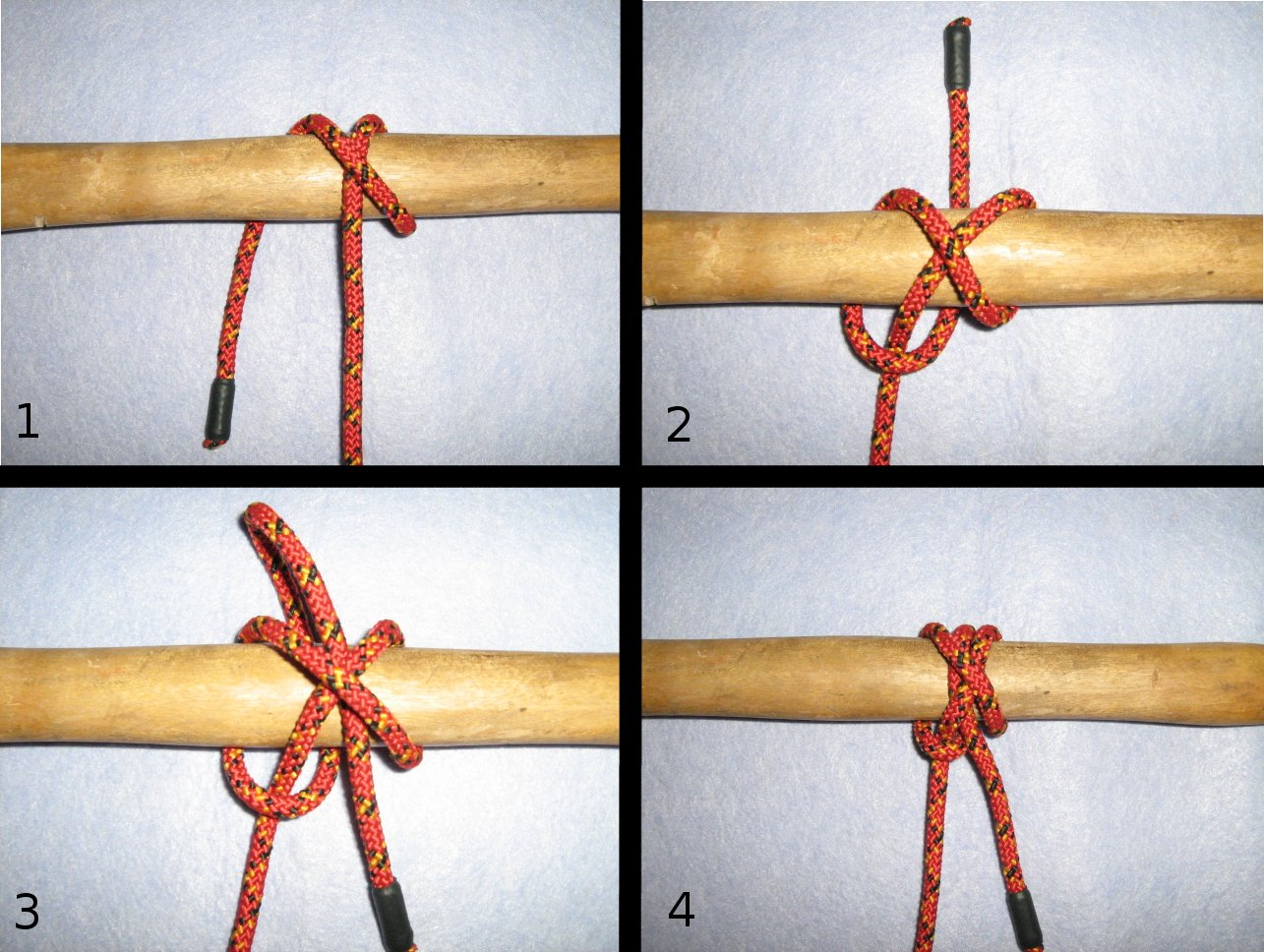 An illustration for the sailor's hitch article.